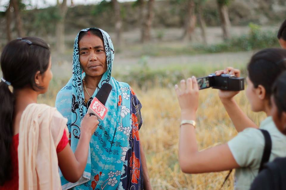 The picture taken during a field reporting by Appan Samachar firebrand girls.